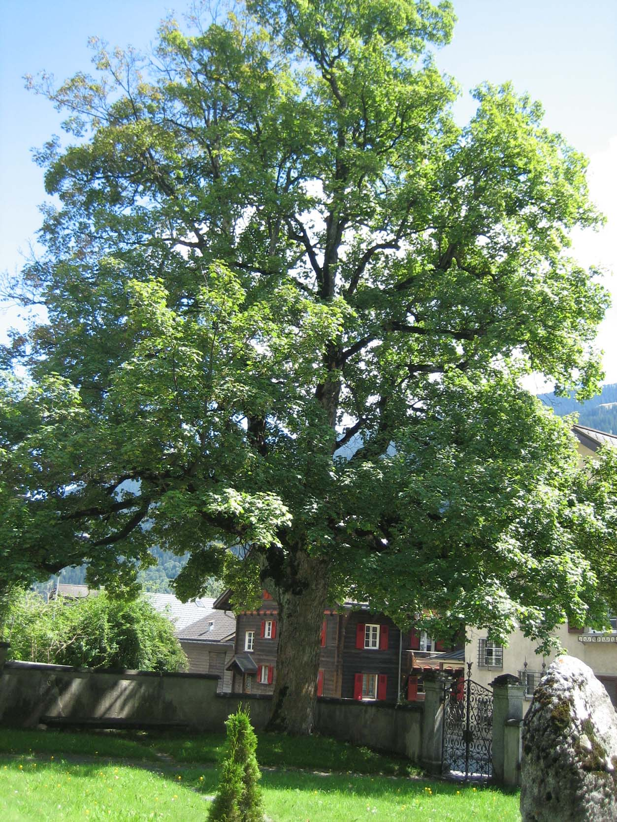 Ahorn (Acer pseudoplatanus) von Trun